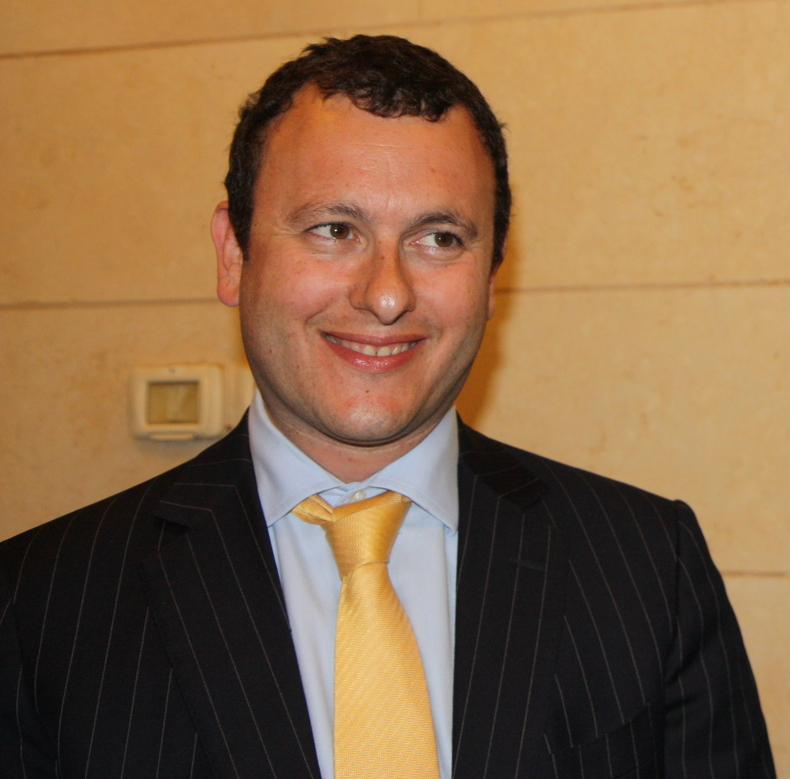 Ambassador Matthew Gould and Minister Moshe Kahlon at the opening event for a series of social clubs for survivors in Givat Olga, Hadera on 14 February 2012 Inauguration of British Club for Holocaust survivors